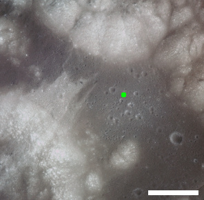 Green dot shows location of Trident, Taurus-Littrow Valley, on the moon. Scale bar at lower right is 5 km.